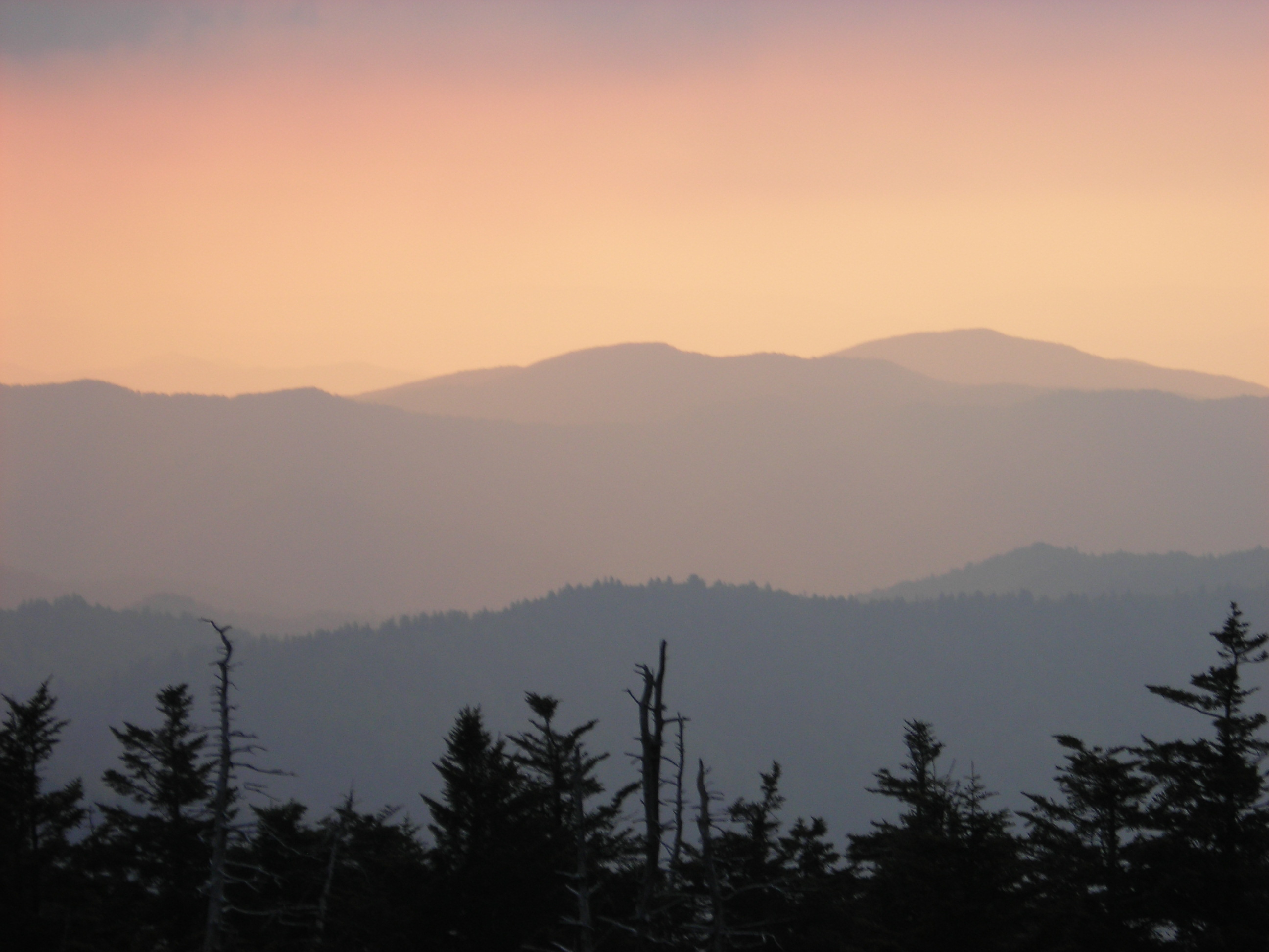 Sunset over Tennessee mountains from Clingmans Dome Observation Tower. Taken by myself, Scott Basford, on May 30, 2006.